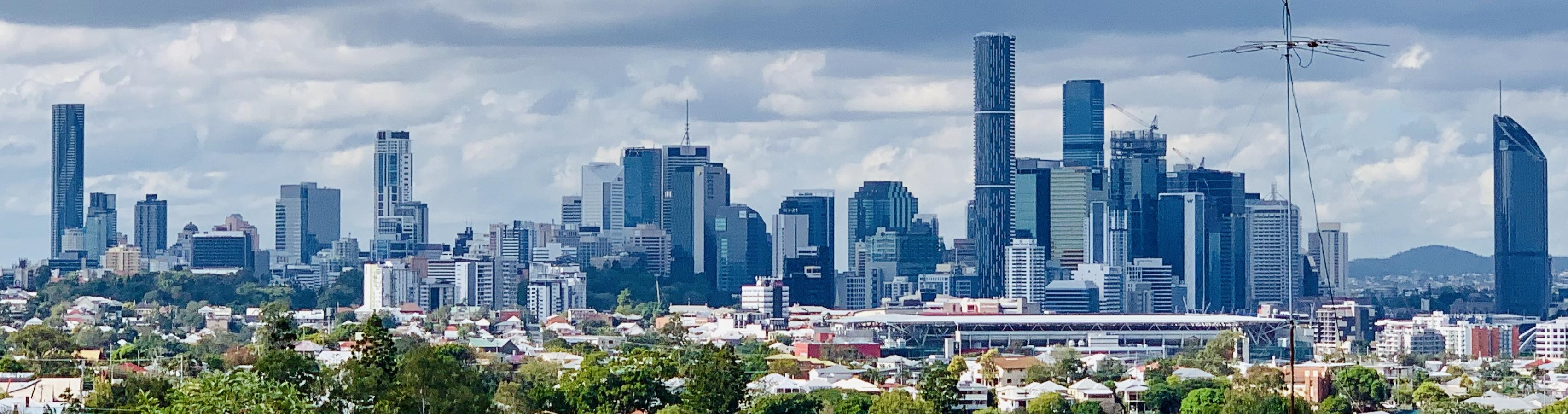 Skylines of Brisbane CBD in June 2019 seen from Paddington, Queensland